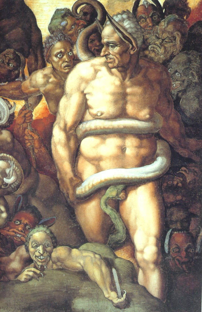 detail of Last Judgmentː Minos at the entrance of hell